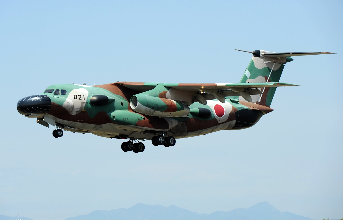 Japan Air Self-Defence Force Kawasaki EC-1